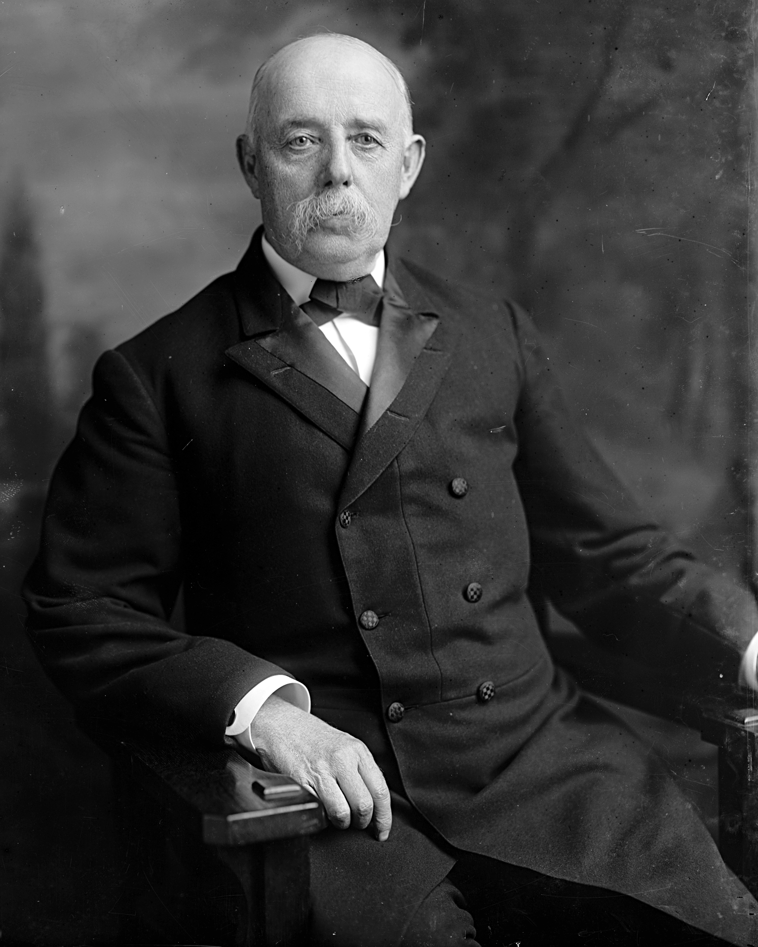 William S. Greene, US Representative from Massachusetts